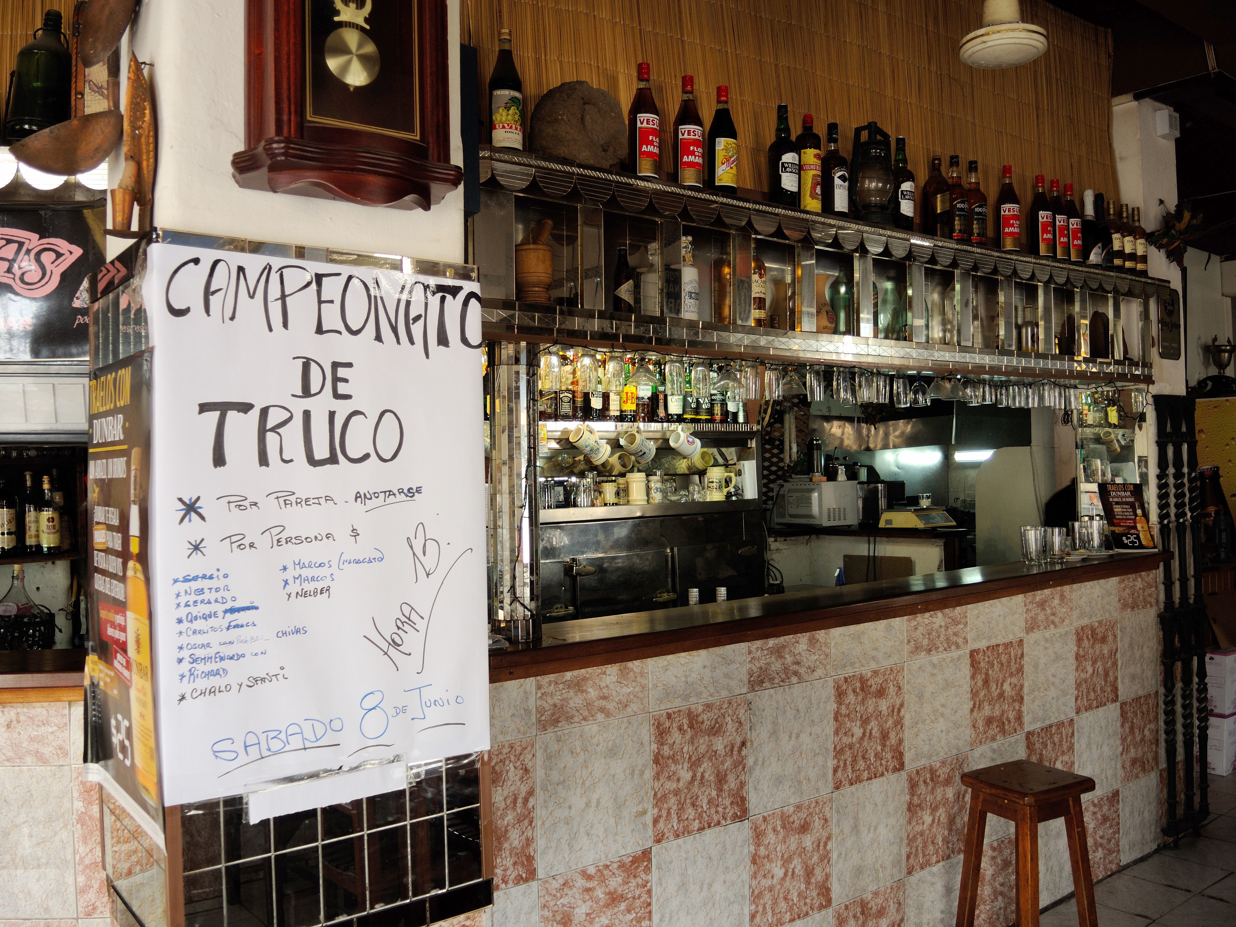 Interior of a typical neighborhood bar Montevideo, which shows a poster inviting to join a championship card game called "truco".